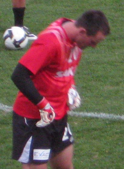 Eugene Galeković warming up for Adelaide United before the A-League match against the Newcastle Jets on September 27 2008 at Hindmarsh Stadium.